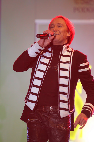 Polish singer Michał Wiśniewski at Miss - Tarnowo May 25, 2013